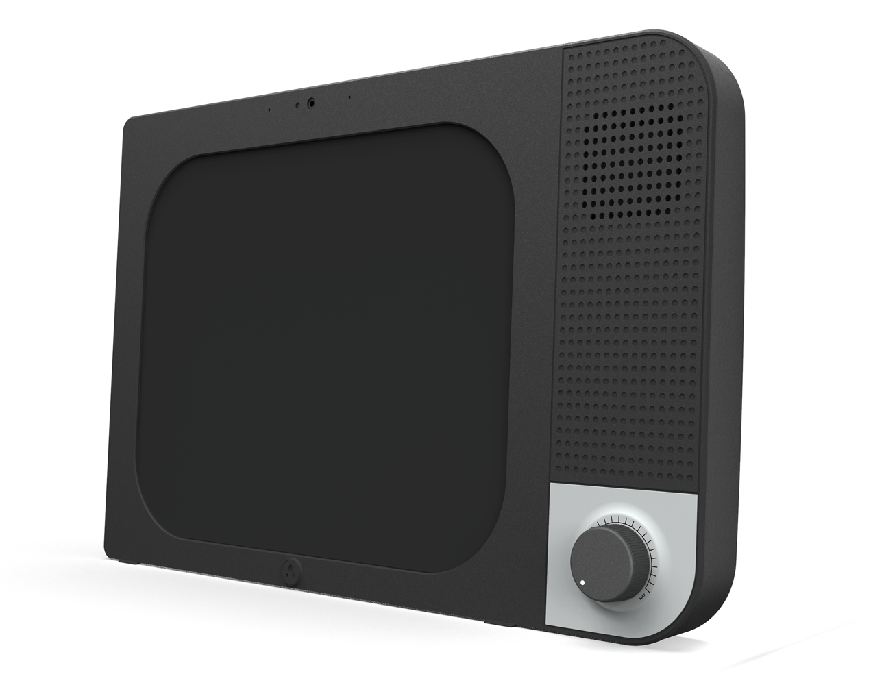 KOMP